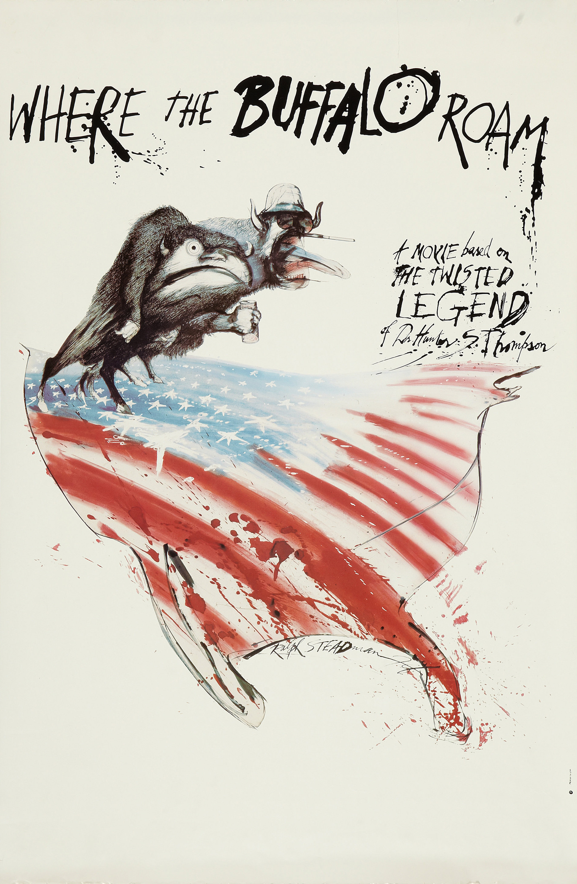 "Special" theatrical release poster for the 1980 film Where the Buffalo Roam, a dramatization of the life of American journalist Hunter S. Thompson.